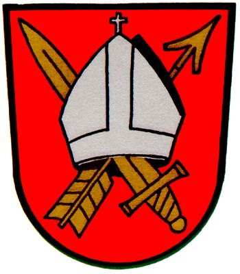 Coat of Arms of Nüdlingen